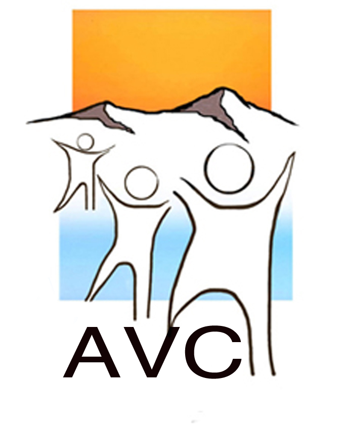 This is the official logo for the Armenian Volunteer Corps.